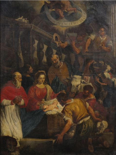 Follower of Leandro da Ponte, called Leandro Bassano ADORATION OF THE SHEPHERDS oil on canvas 72 1/2 by 51 1/2 in.; 184.2 by 130.8 cm.